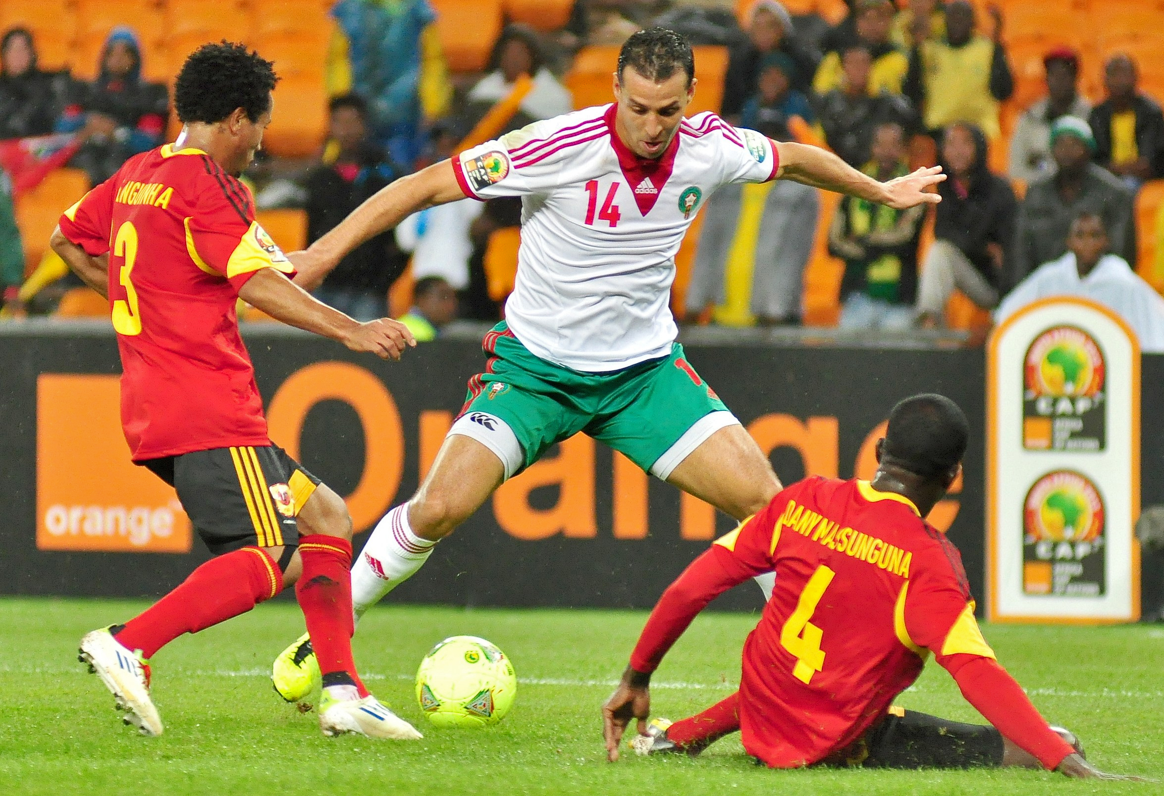 Morocco clash with Angola in a Group A game of the 2013 CAN on January 19th.